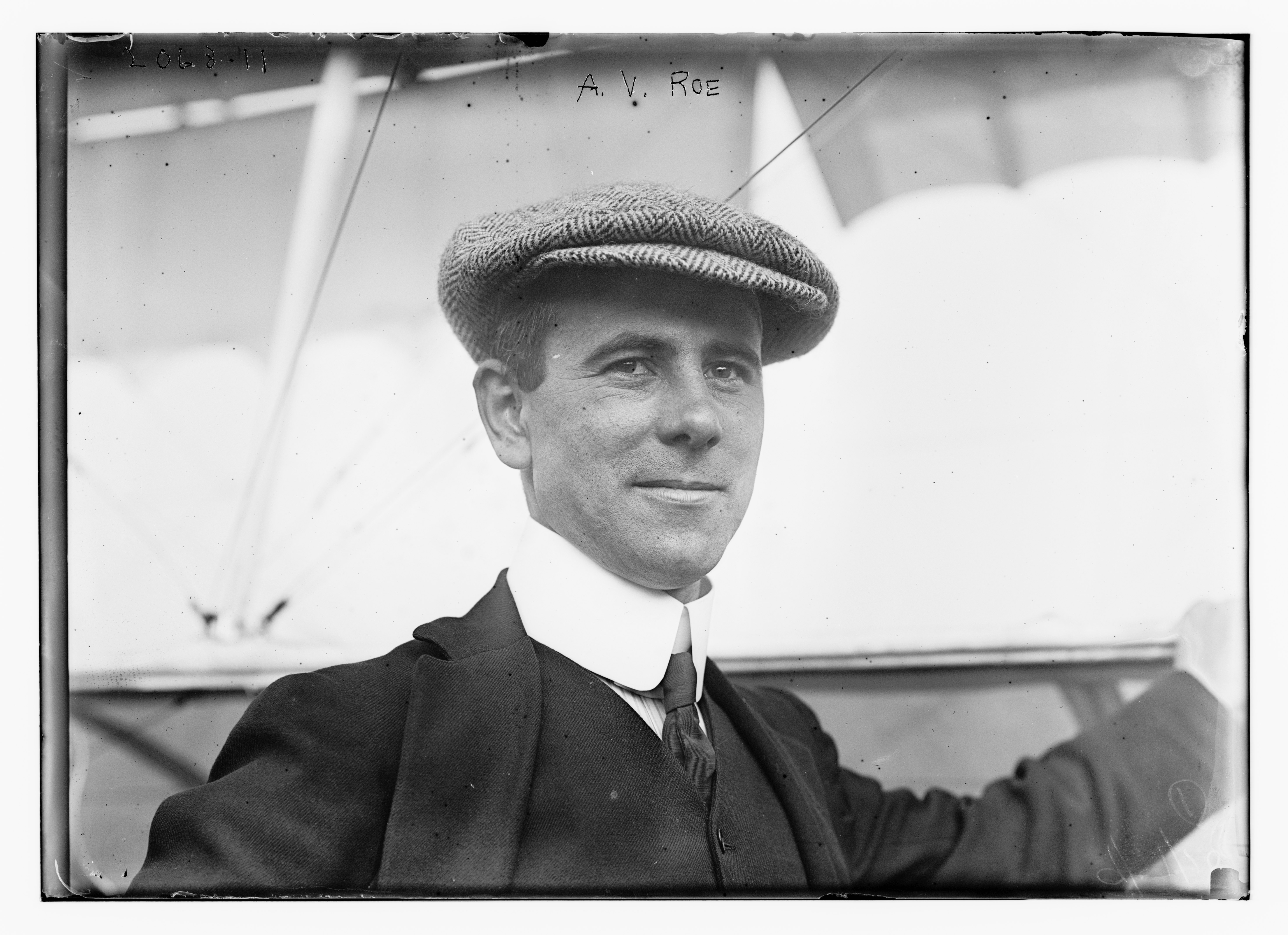 Title: A.V. Roe Abstract/medium: 1 negative : glass ; 5 x 7 in. or smaller.